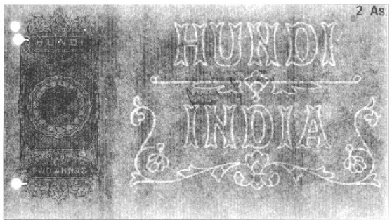 Watermark on an Indian 2a Hundi.